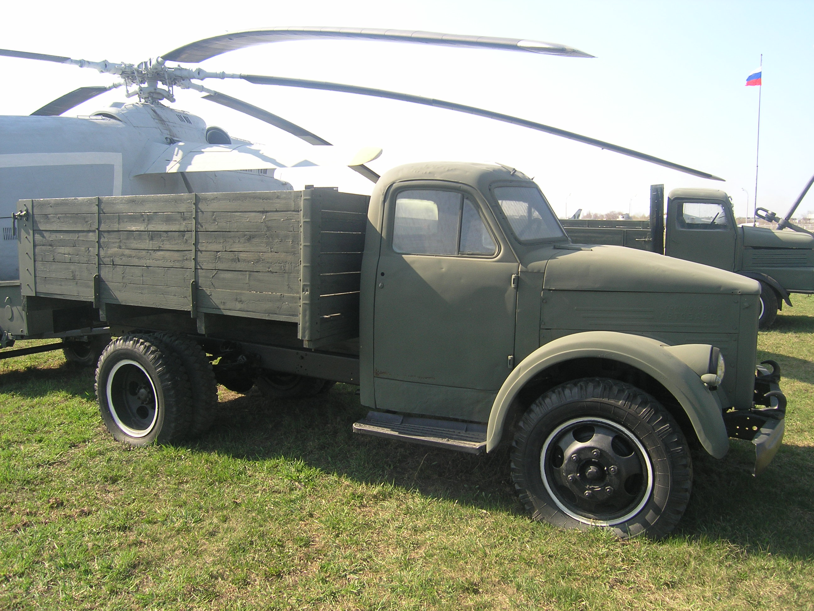 GAZ-51, technical museum, Togliatti, Russia